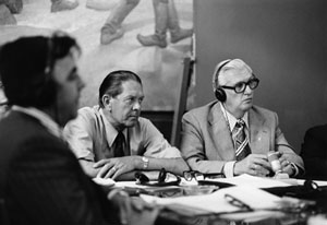 Erling Dinesen and Thomas Nielsen